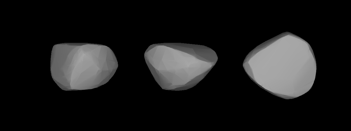 A three-dimensional model of 371 Bohemia that was computed using light curve inversion techniques.